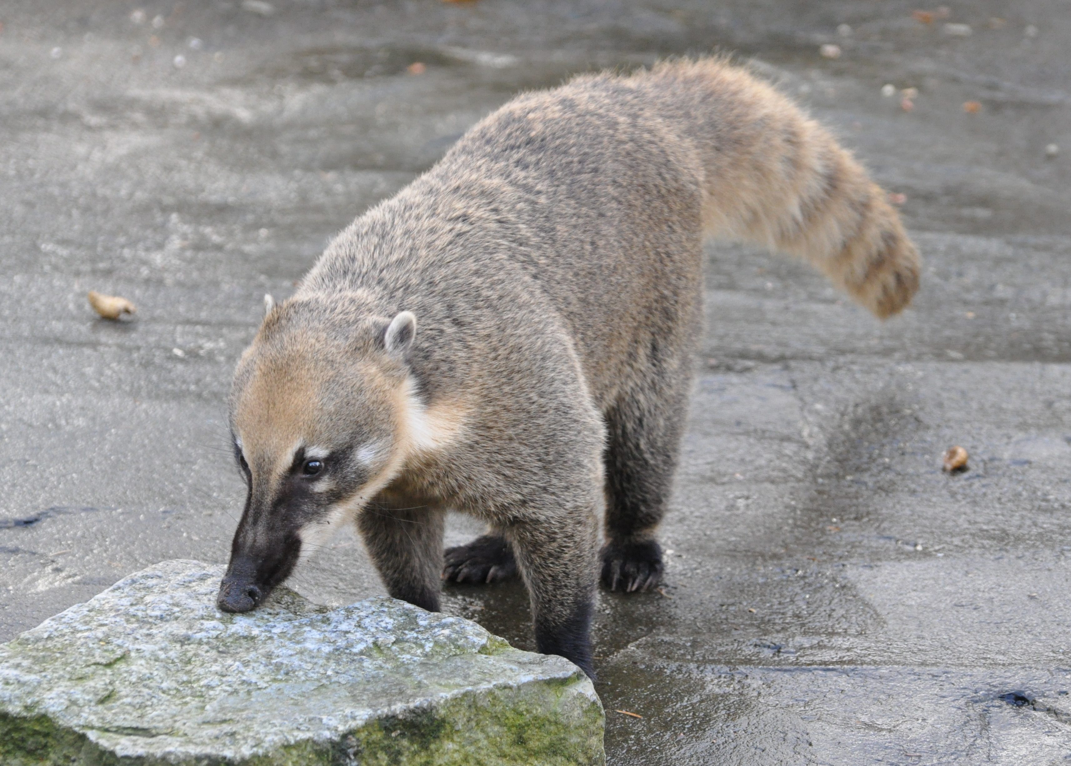 Ring-tailed Coati (Nasua nasua) in the Lüneburg Heath wildlife park, Germany.